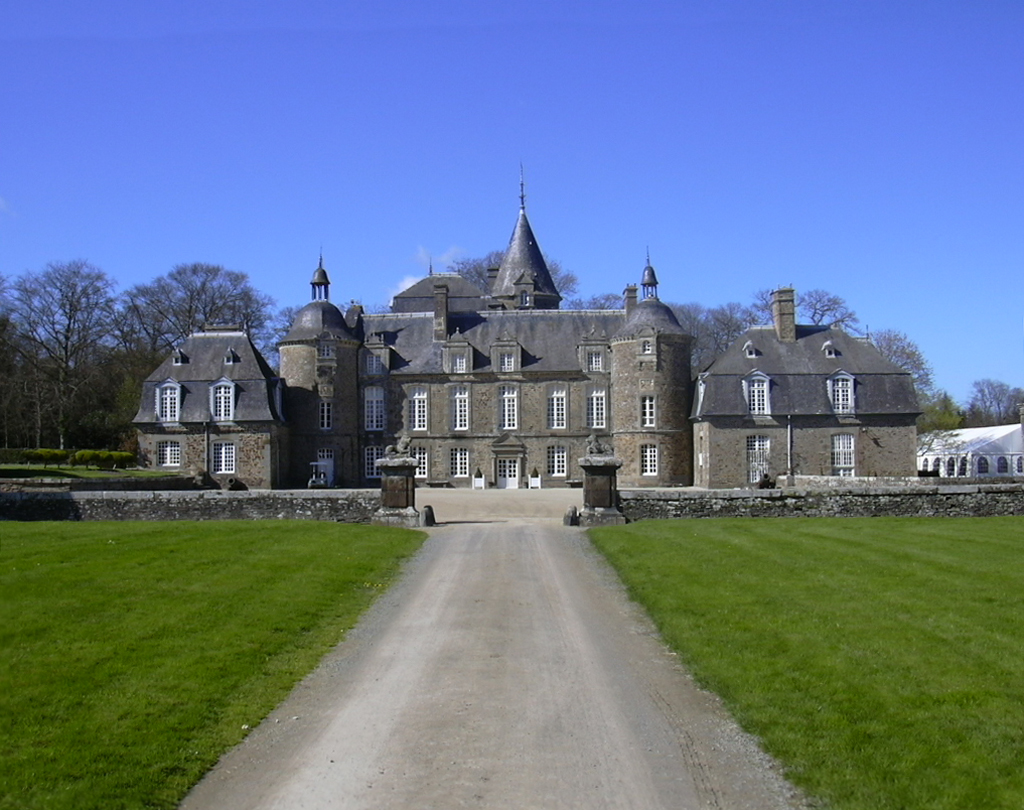 Bourbansais castle in Britain, France.